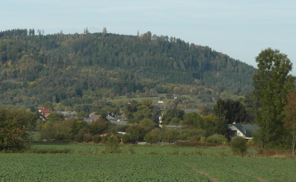 A hill in Šumperk District